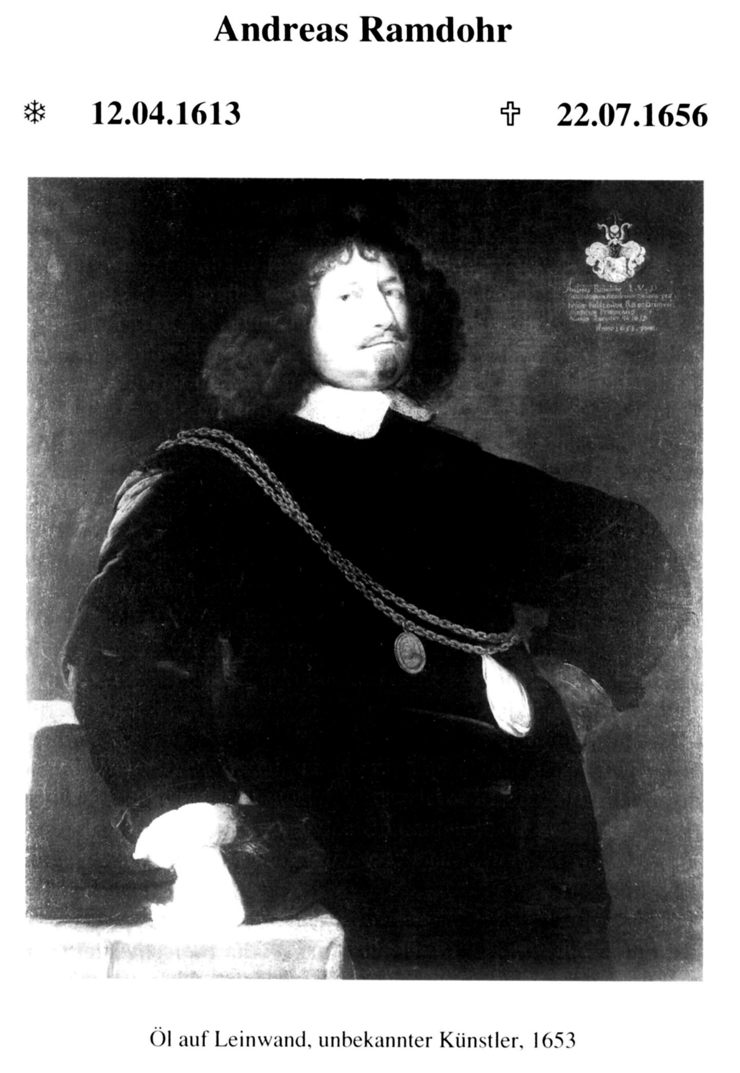 Prtrait of A.Ramdohr 1653